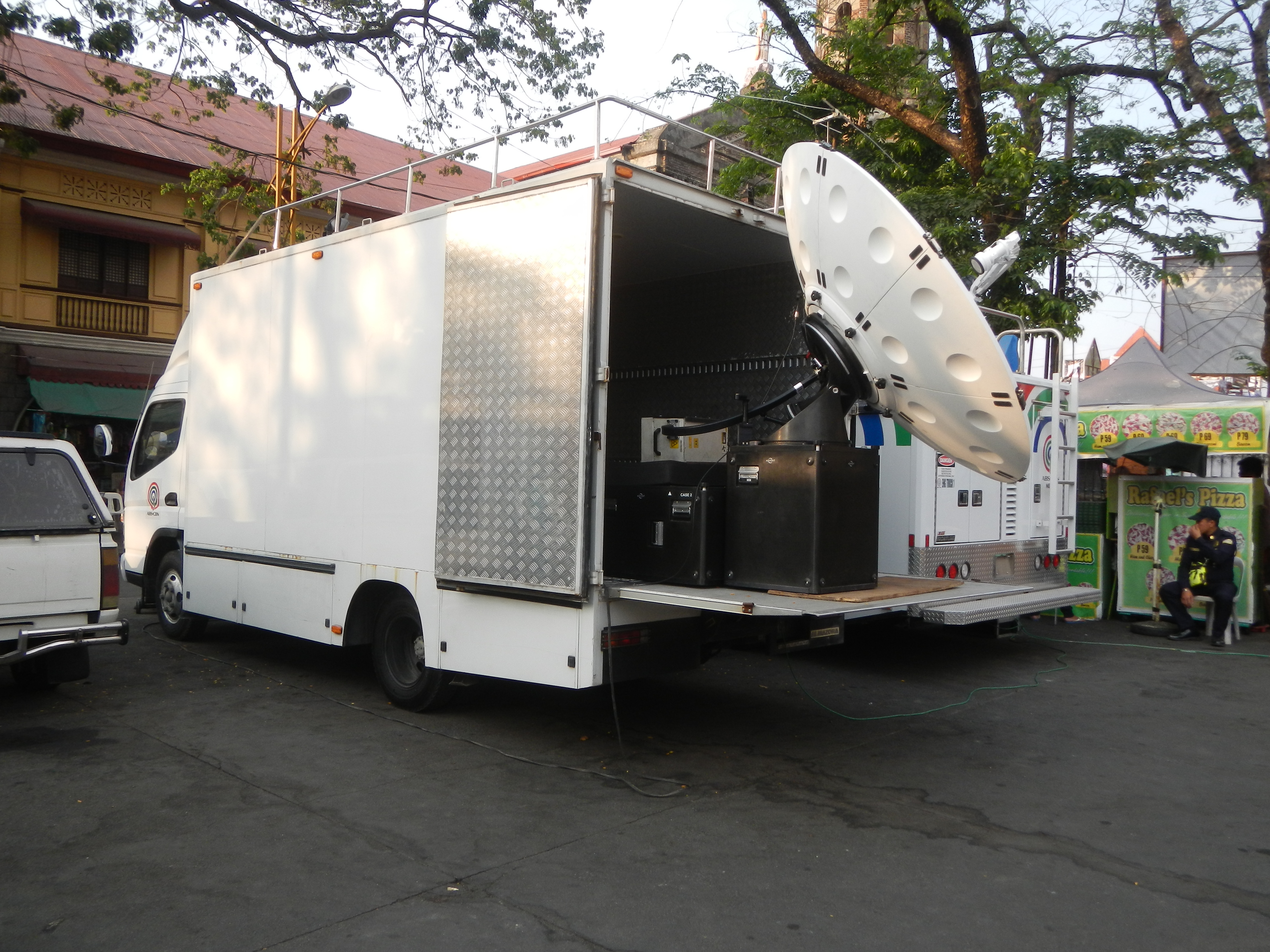 Holy Week in the Philippines, Holy Wednesday and Good Friday, Good Friday processions in Baliuag, 2016 in St. Augustine Parish Church of Baliuag Saint Augustine Parish Church (Baliuag) Barangay Poblacion, Baliuag, Bulacan, Bulacan (accessed from Maharlika Highway (Cagayan Valley Road, Baliuag-Pulilan-Guiguinto, Bulacan) Pan-Philippine Highway, also known as the Maharlika "Nobility/freeman" Highway or Asian Highway 26, Cagayan Valley Road).